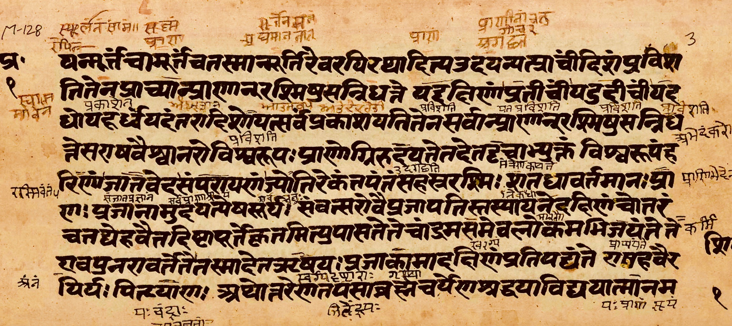 The early Upanishads (Upanisad, Upanisat) are scriptures of Hinduism. Variously dated by scholars to have been composed between 900 BCE to about 200 BCE, these texts are in Sanskrit language and embedded within a layer of the Vedas. They contain a mixture of philosophy and mystical speculations, many set in the form of dialogues or pedagogic style. Their central teachings include the concepts of Atman (soul, self) and Brahman (metaphysical reality). The above image is from a Prashna Upanishad manuscript and found embedded in a textual layer of the Atharvaveda. It is dated to the second half of the 1st millennium BCE by scholars. The Prashna Upanishad contains six Prashna (questions), and each is a chapter with a discussion of answers. These manuscripts are preserved at the Lalchand Research Library, Ancient Indian Manuscript Collection, DAV College Digital Library Initiative, Chandigarh India, in association with SP Lohia and Indorama Charitable Trust. The texts are over 2000 years old, the re-copying into this particular manuscript is dated to a 19th-century reproduction (about 1870, exact year unknown). The manuscript shows decay and damage on the sides and its edges. Language: Sanskrit Script: Devanagari Script style: pre-14th century (Northern / Western) The photo above is of a 2D artwork of a text that is over 2,000 years old, from a manuscript that was produced decades before 1923. Therefore Wikimedia Commons PD-Art licensing guidelines apply. Any rights I have as a photographer is herewith donated to wikimedia commons under CC 4.0 license.